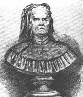 Alberto I della Scala